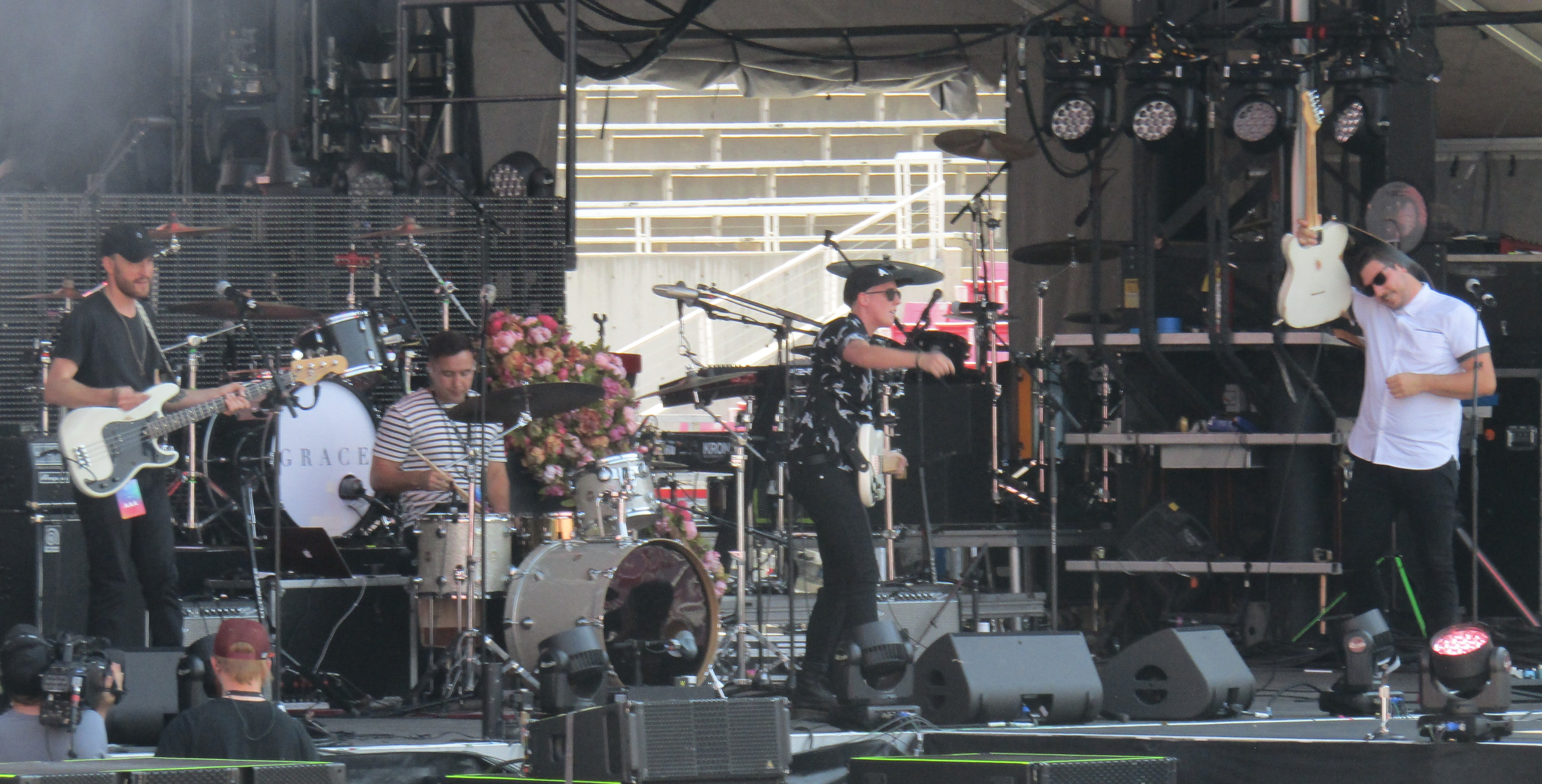 A.W. about to perform at LoveLoud 2018.